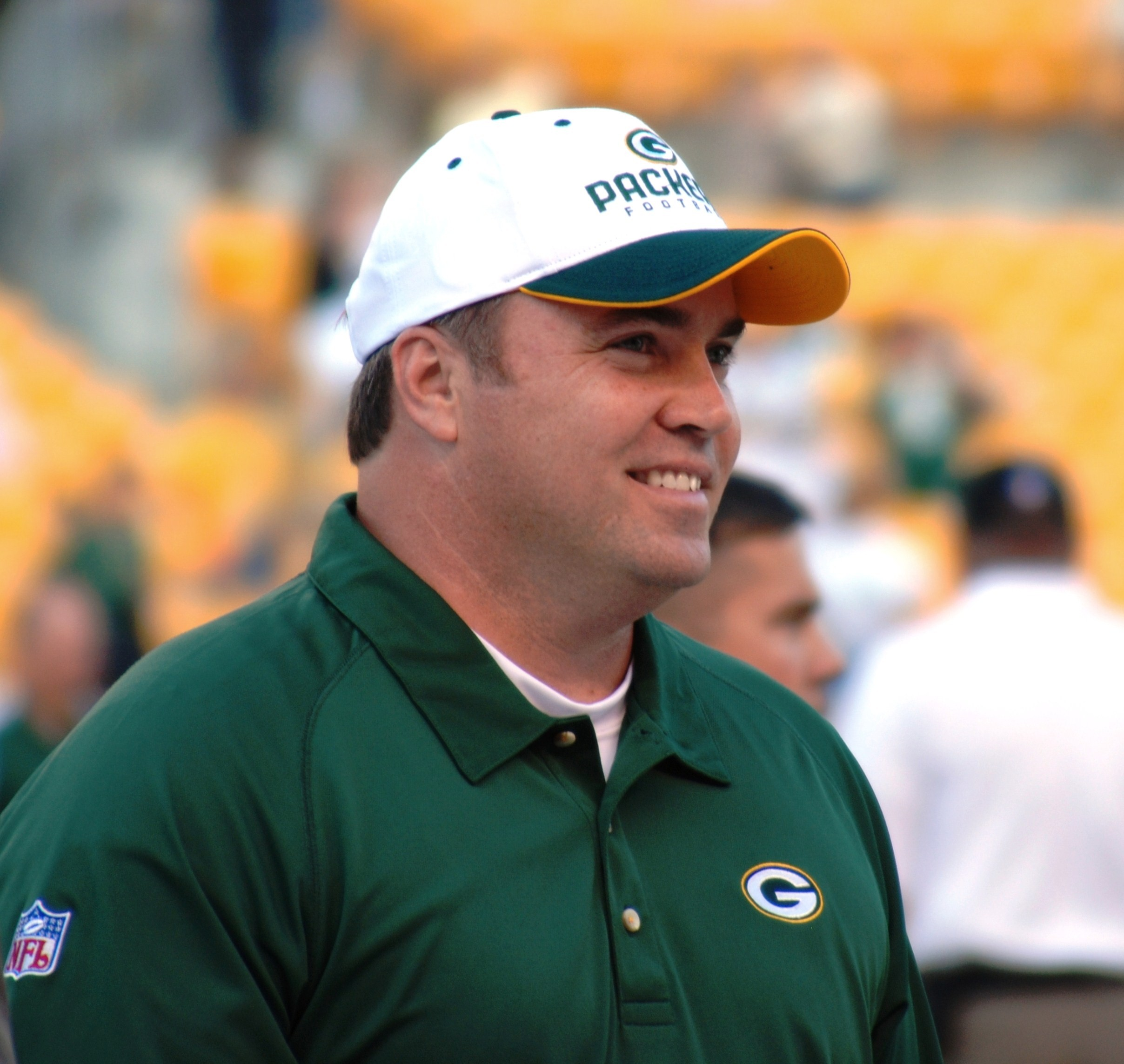 Former Green Bay Packers Head Coach Mike McCarthy. Photo by Thomas J. Grant, Skaneateles, NY, USA.